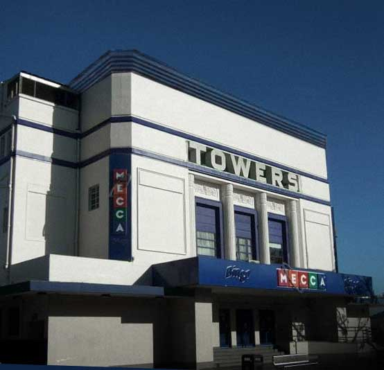 Towers Cinema Hornchurch, with Mecca Bingo frontage